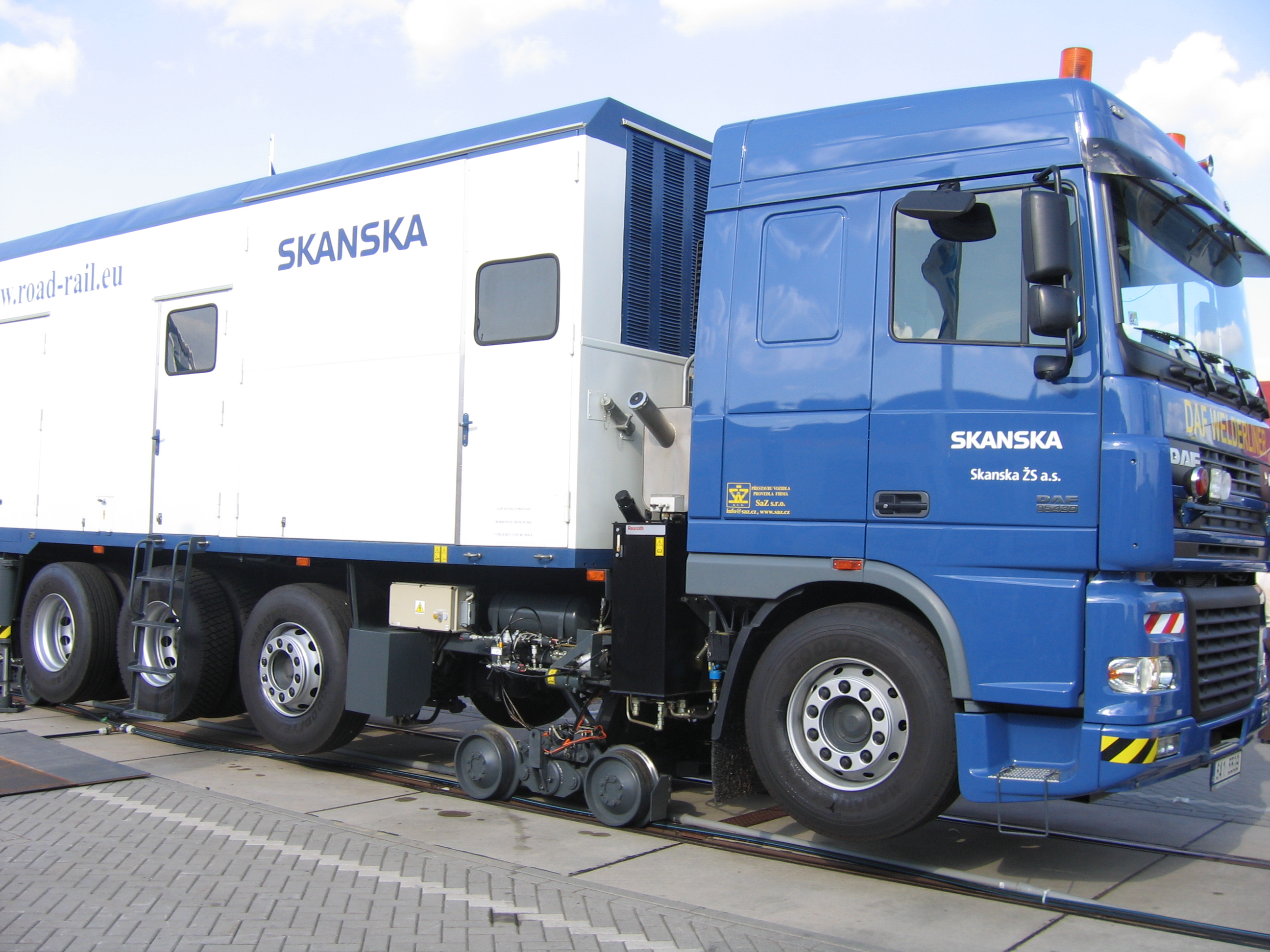 Road/rail service vehicle.